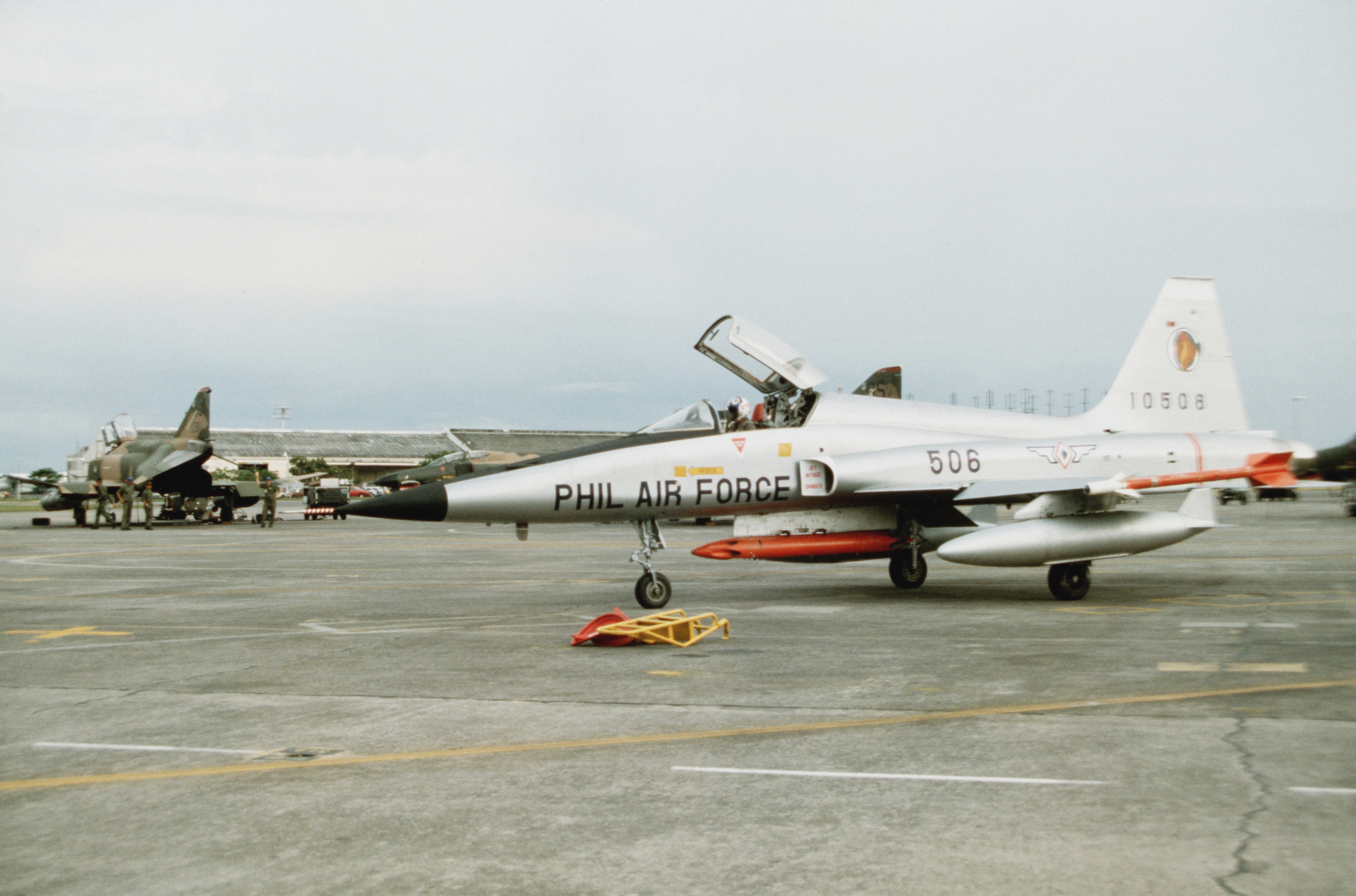 A Philippine Air Force Northrop F-5A Freedom Fighter aircraft on the flight line during the air combat training exercise "Cope Thunder '83-1" at Clark Air Base on 1 November 1982.